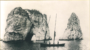 An old photograph of the Raouché Rock formation in Beirut. Late 19th-early 20th Century. A sail boat appears, which the locals call "shakhtoura".